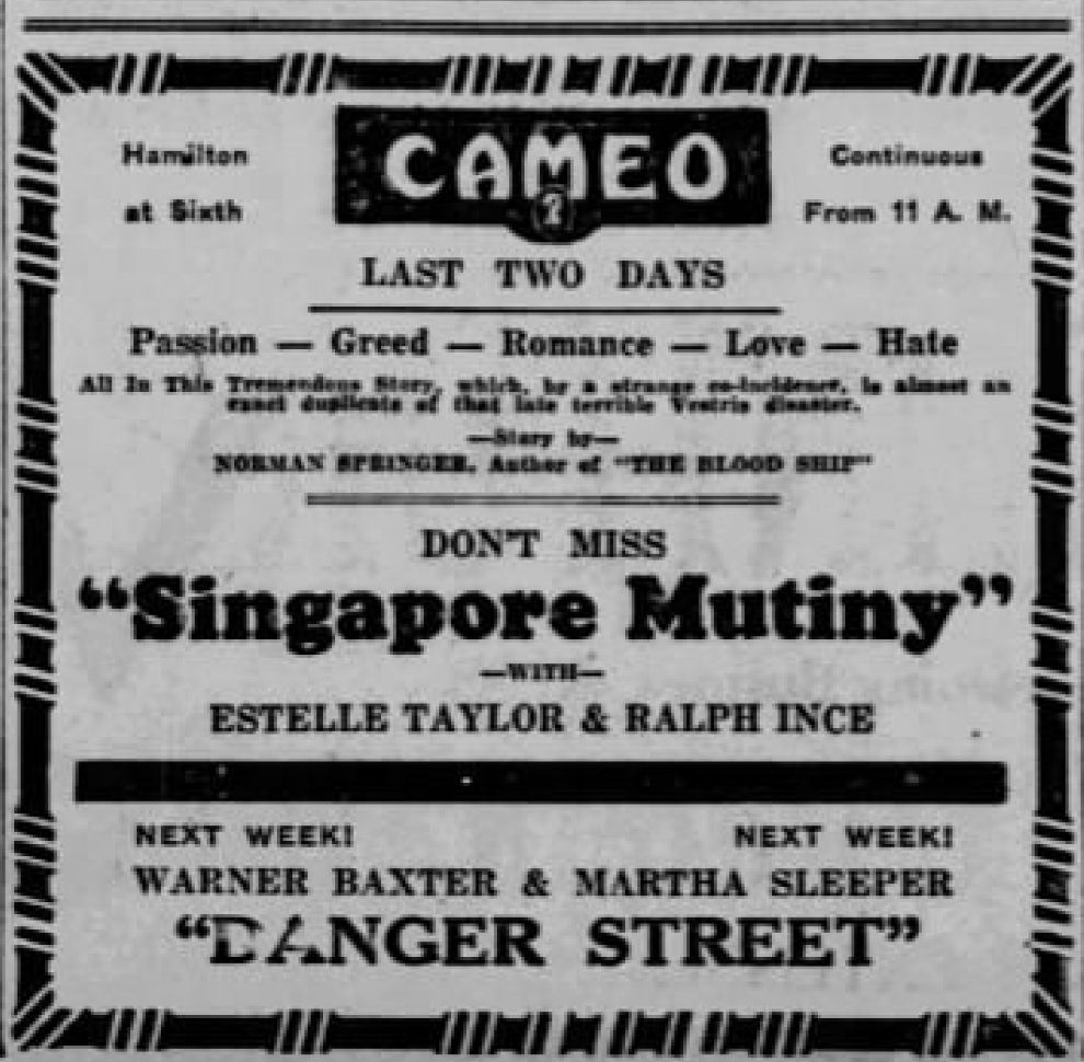 Cameo Theater advertisement for The Wreck of the Singapore (1928) aka The Singapore Mutiny - 7 Dec. 1928 Morning Call Allentown PA